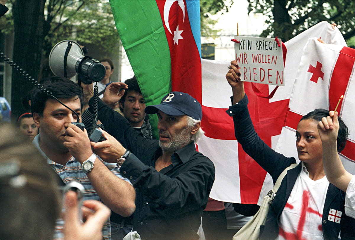 Georgian and Azerbaijani demonstrators chanting slogans against war in Georgia. The demontration took place in Berlin in front of Russian embassy.